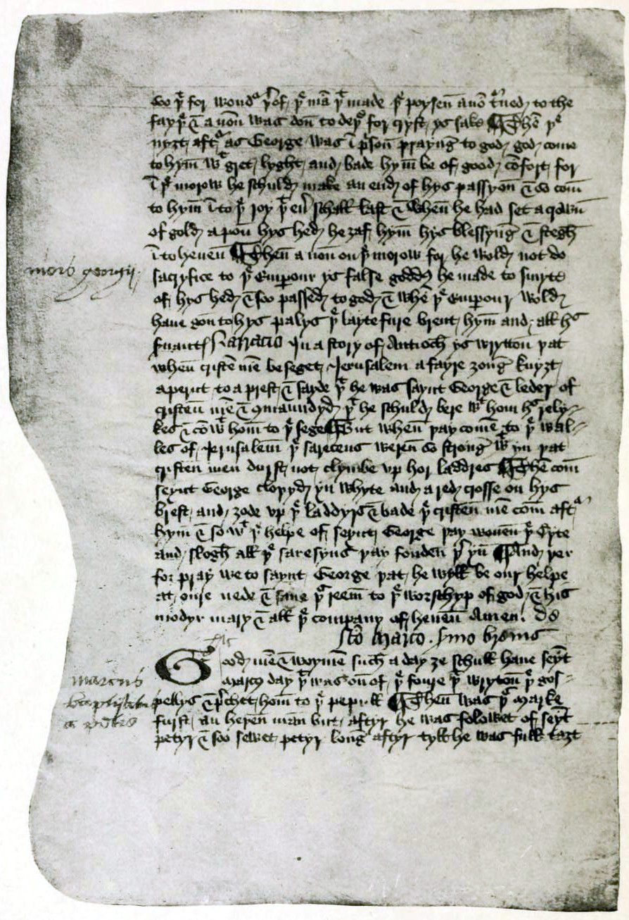 Page from John Mirk's Festial, a collection of sermons dating from the late 14th century. Mirk was a canon at Lilleshall Abbey, Shropshire.